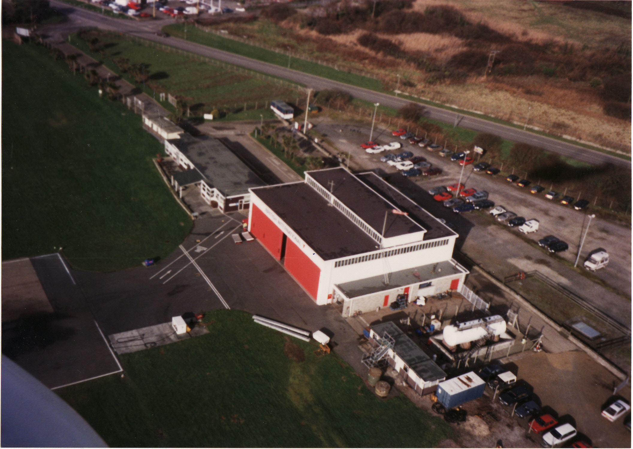 Photo from 1996. The Heliport was more recently demolished in favour of a Sainsbury's Supermarket....